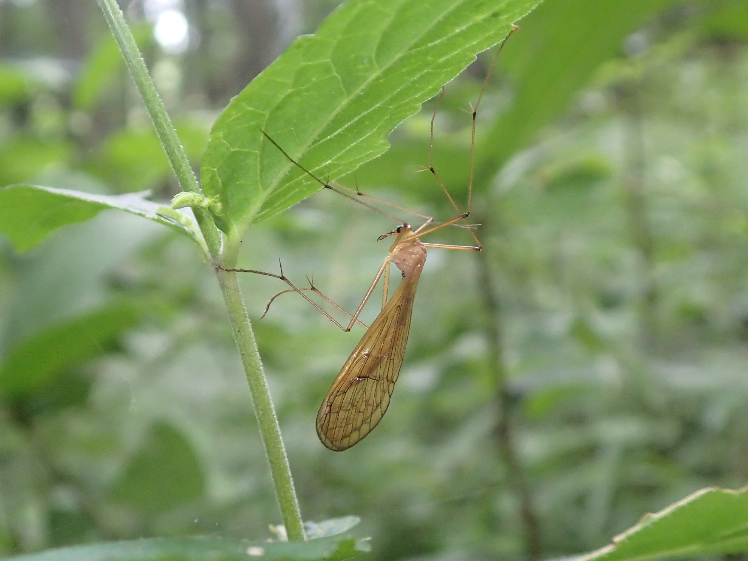 Bittacus nipponicus Navás, 1909 (Mecoptera: Bittacidae). Yokohama, Kanagawa, Japan.